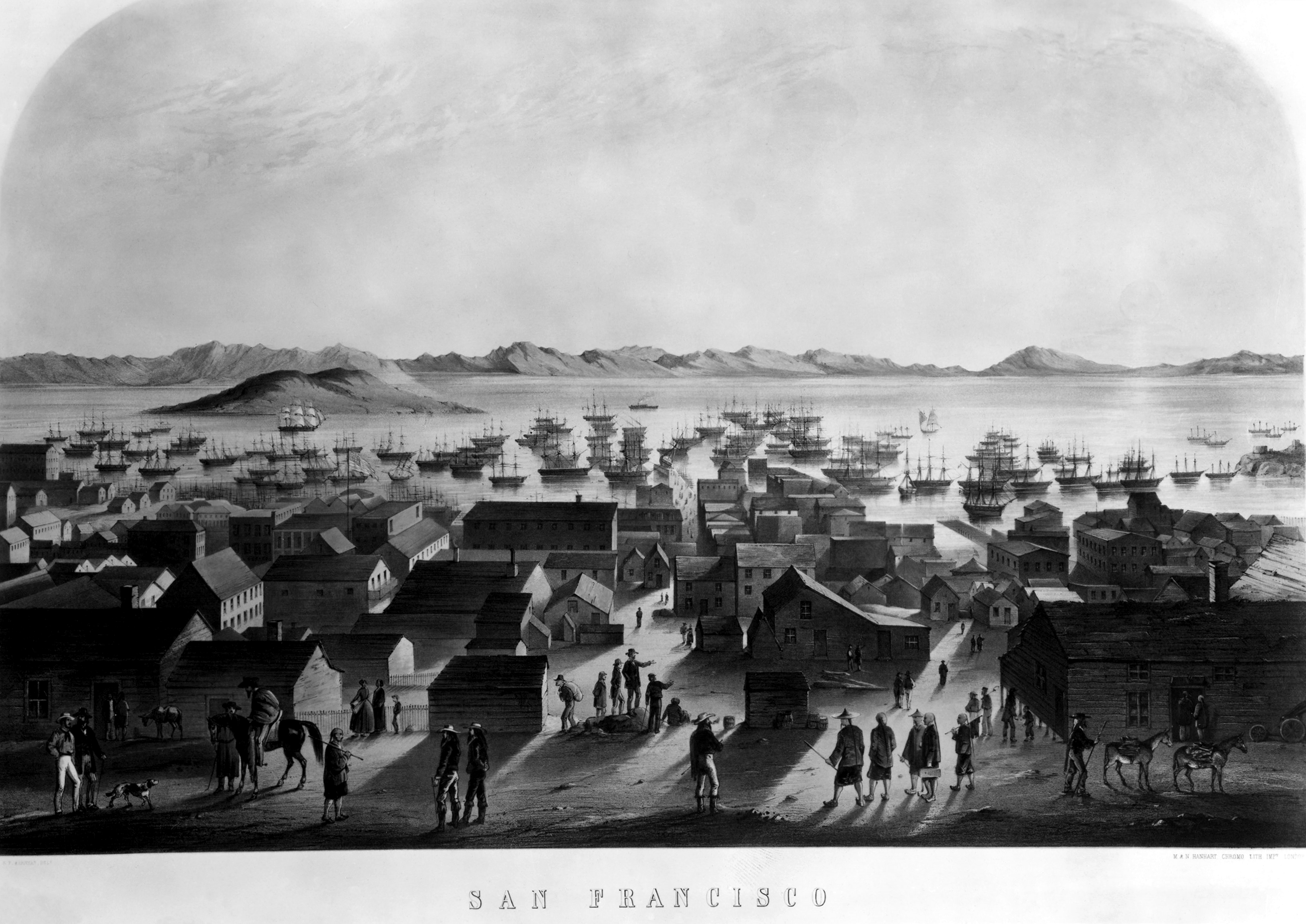 Francis Samuel Marryat, Hilltop of San Francisco, California, Looking toward the Bay, 1849. M.& N. Hanhart Chromolithograph